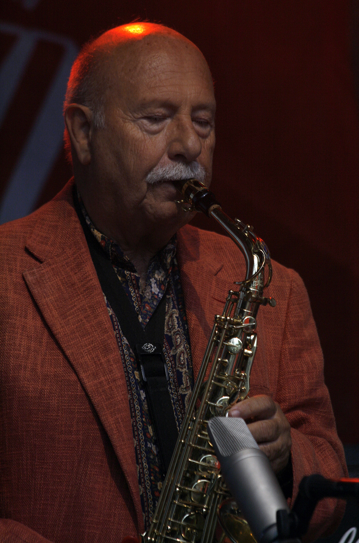 Austrian jazz musician Hans Salomon, concert with DeWieners at the Donauinselfest in Vienna).